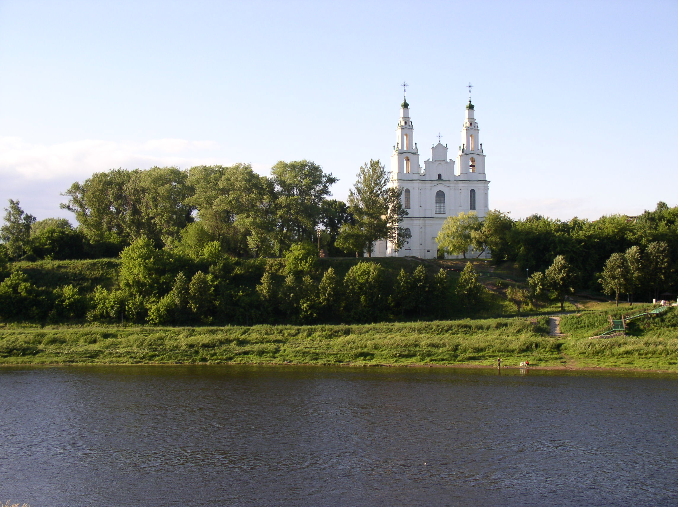 Cathedral of Saint Sophia. Polatsk, Belarus.